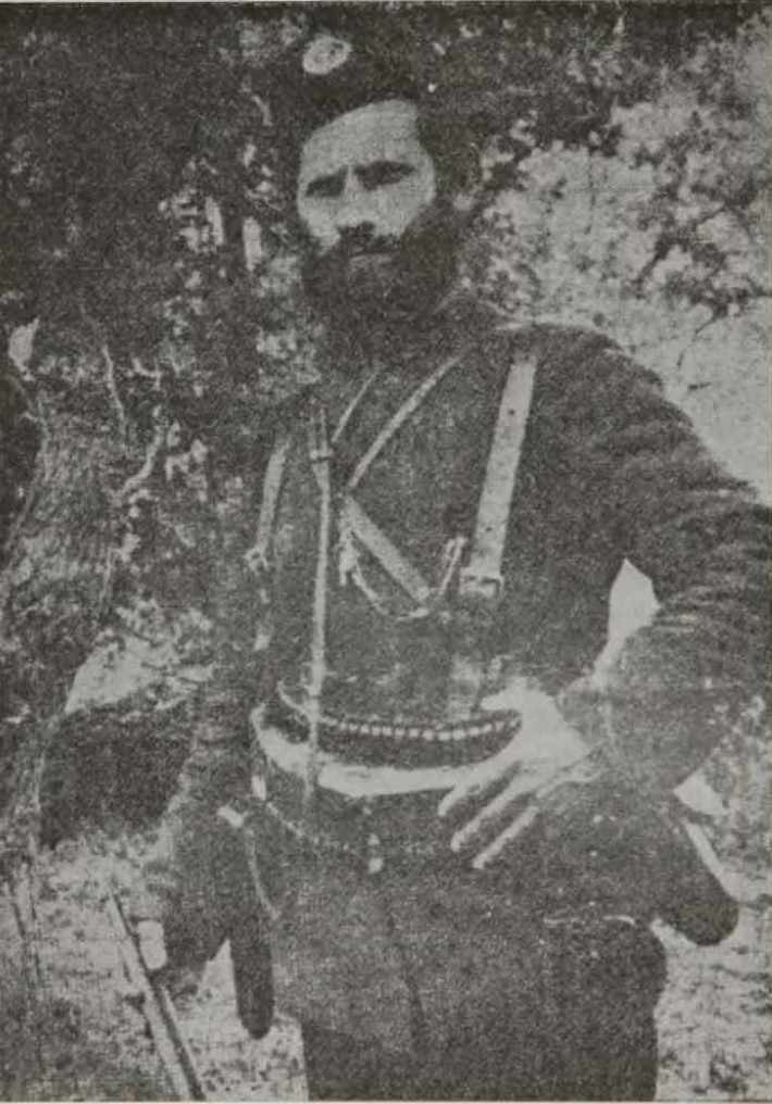 IMARO and IMRO revolutionary Nikola Hristov from Negovan (Flamburo, Greece)